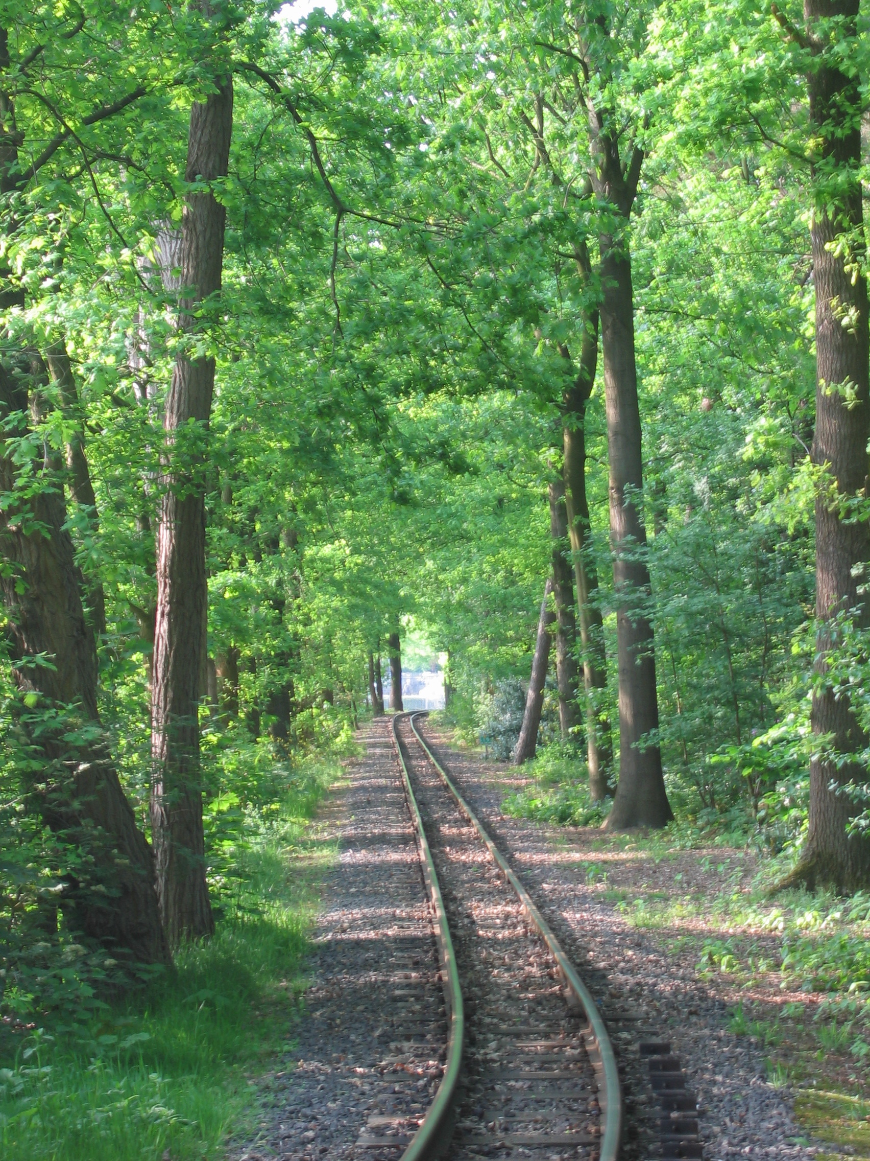 Efteling Railroad near the Fairy Tale Forest